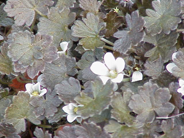 Species: Geranium sessiliflorum Family: Geraniaceae Image No. 1